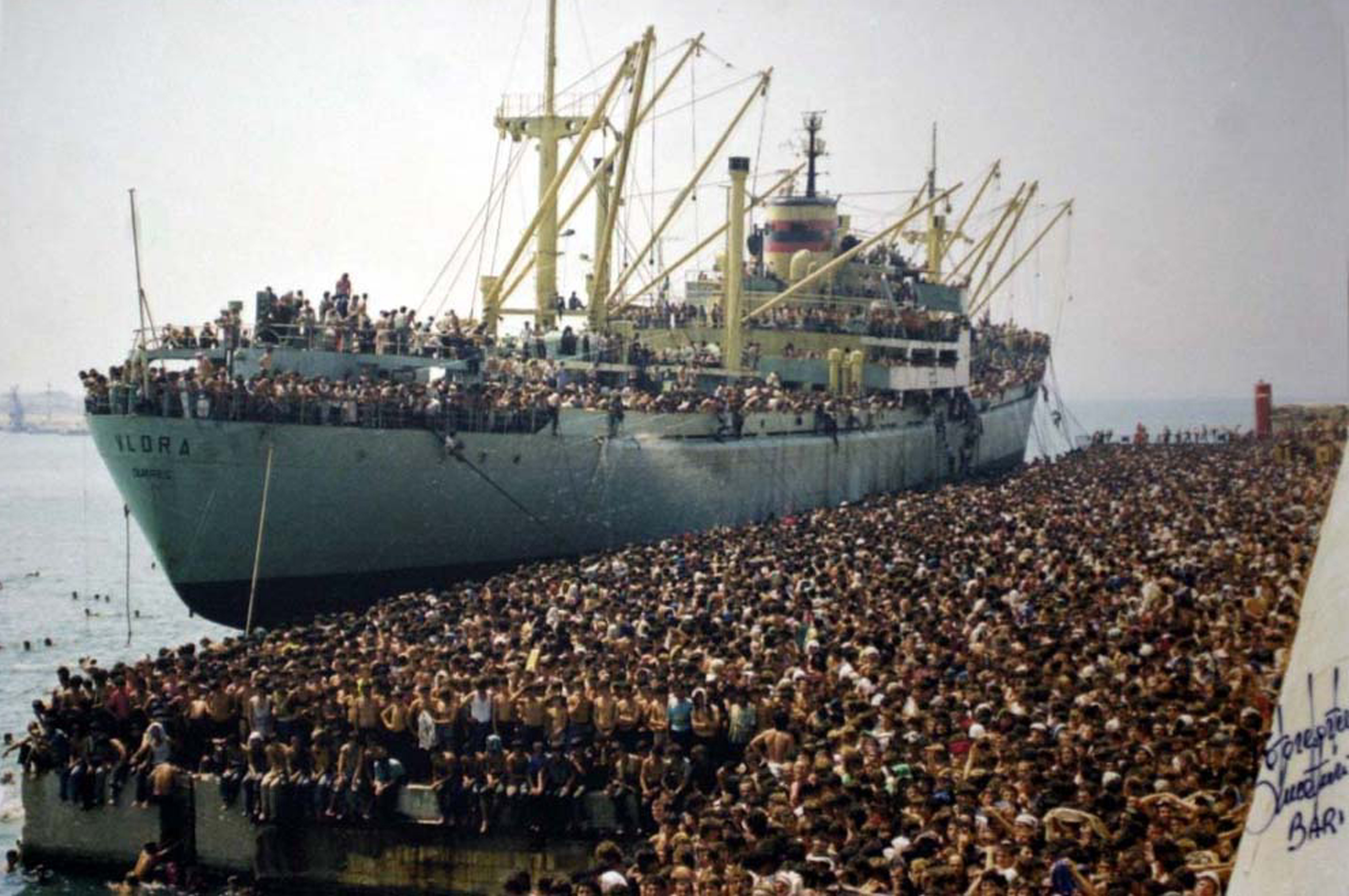 The ship Vlora docked to a quay in the port of Bari, full of Albanian immigrants.